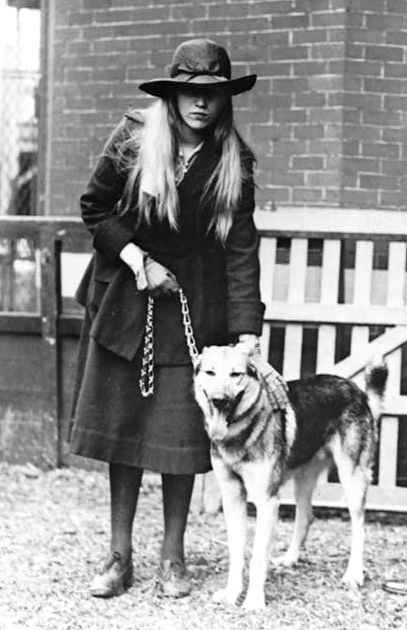 Anna Roosevelt Halstead and her German shepherd "Chief of the Mohawk". Cropped from original.